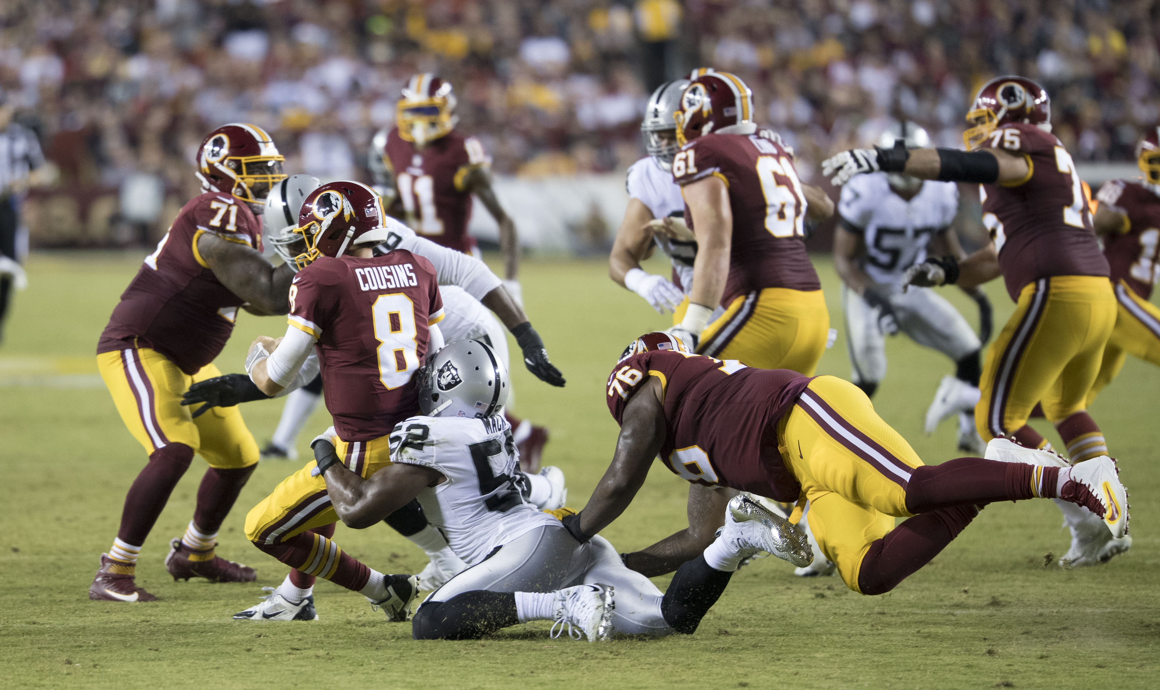 Khalil Mack sacks Kirk Cousins in a prime time game against the Washington Redskins